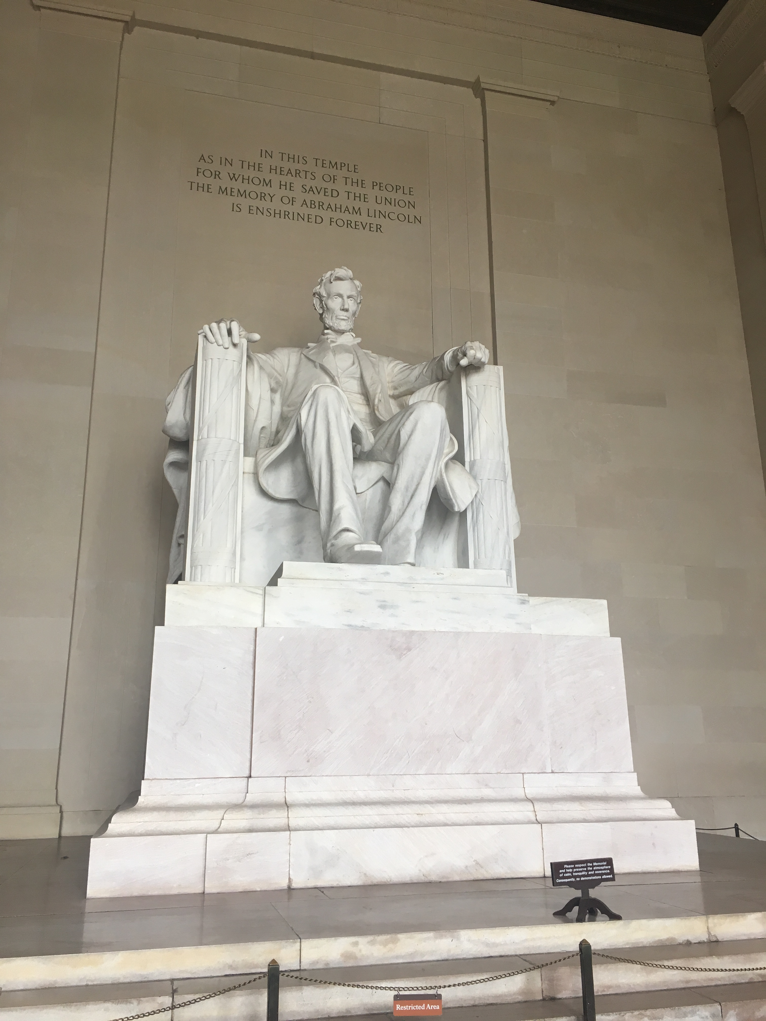 Lincoln Memorial Washington DC 1